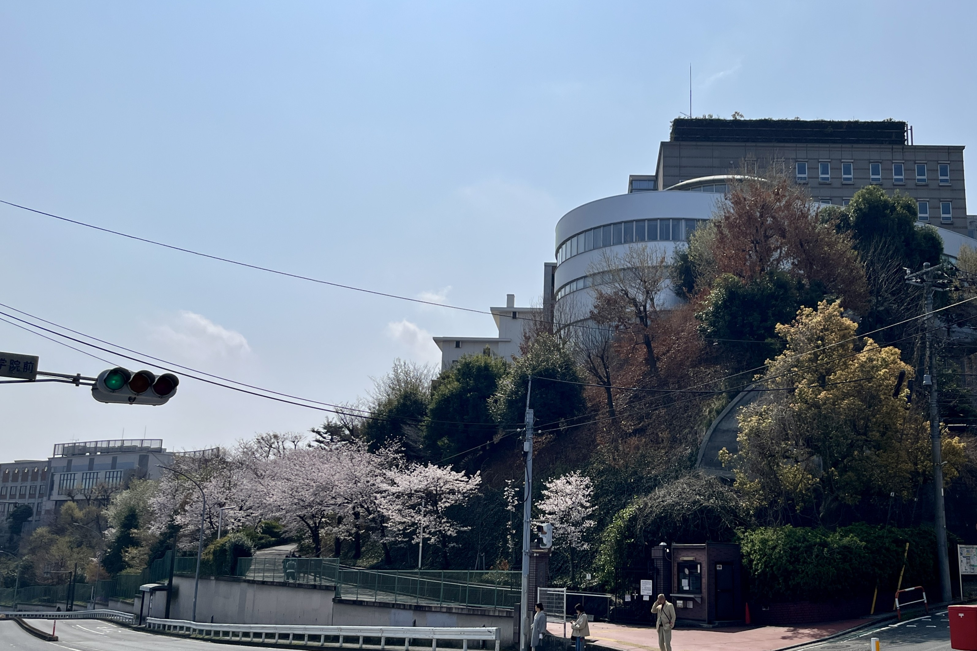 Kantou-Gakuin Highschool Yokohama, Japan